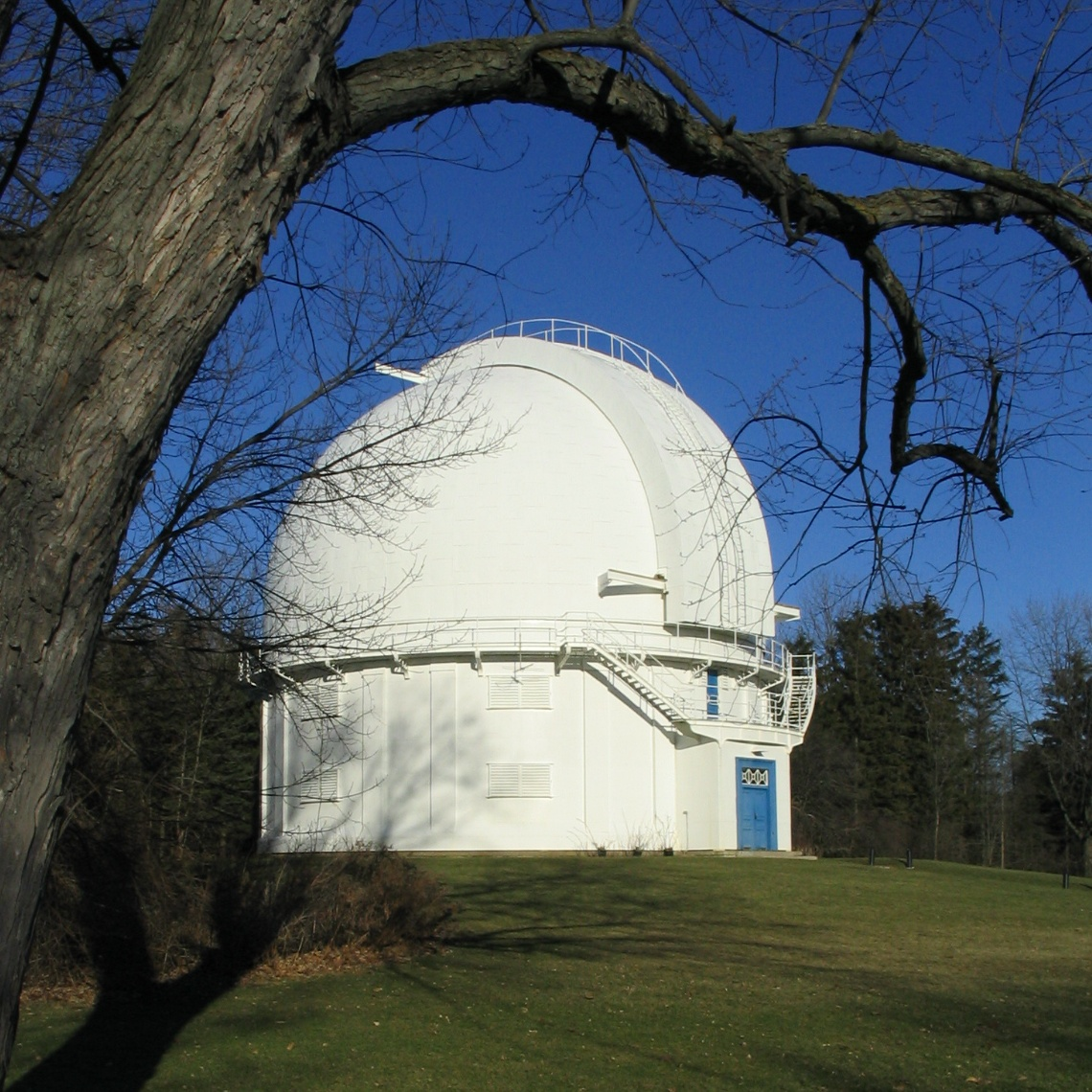 The 74 inch telescope at the David Dunlap Observatory.